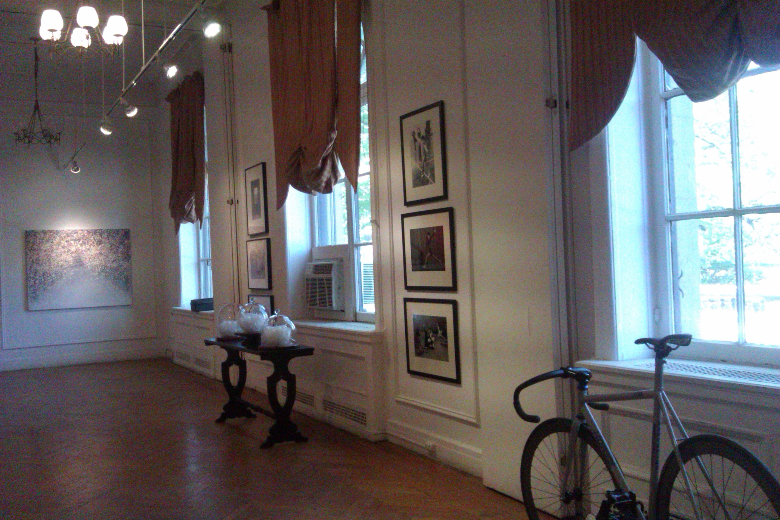 Brimming on the Edge exhibition at the Andrew Freedman Mansion in the Bronx during NYCxDesign Week.